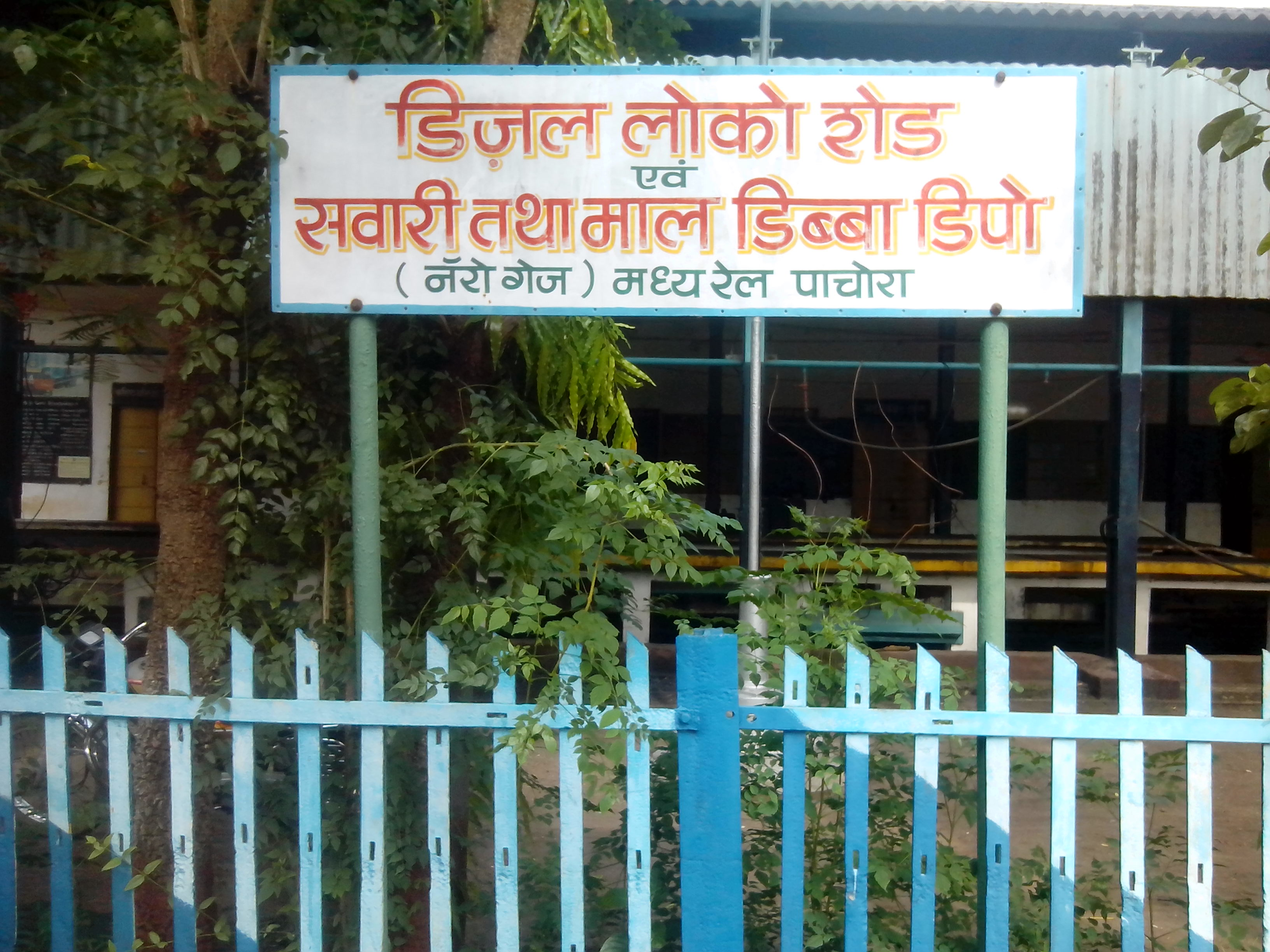 Diesel Locomotive Sheds and Workshops